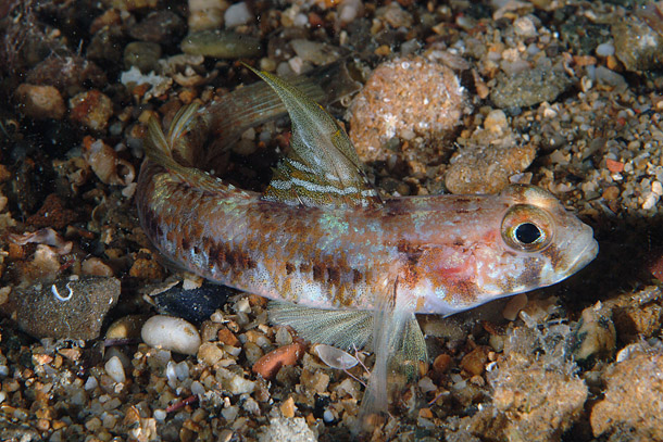 Gobius niger (var. albidus) male photographed in Tuscany (Italy) Photo by Stefano Guerrieri.